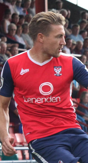 Simon Heslop playing for York City against F.C. United of Manchester at Bootham Crescent, York on 28 August 2017